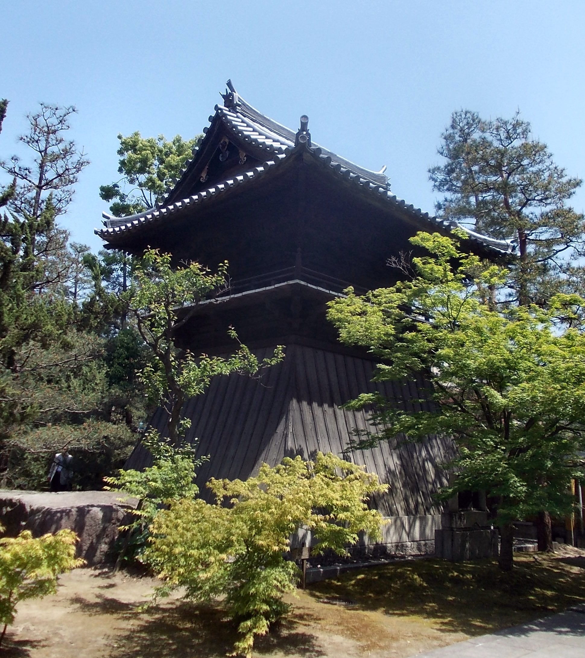 The golden bronze bell of Joten-ji Temple, Hakata-ku,Fukuoka, Japan. It is important cultural properties designated by the government.